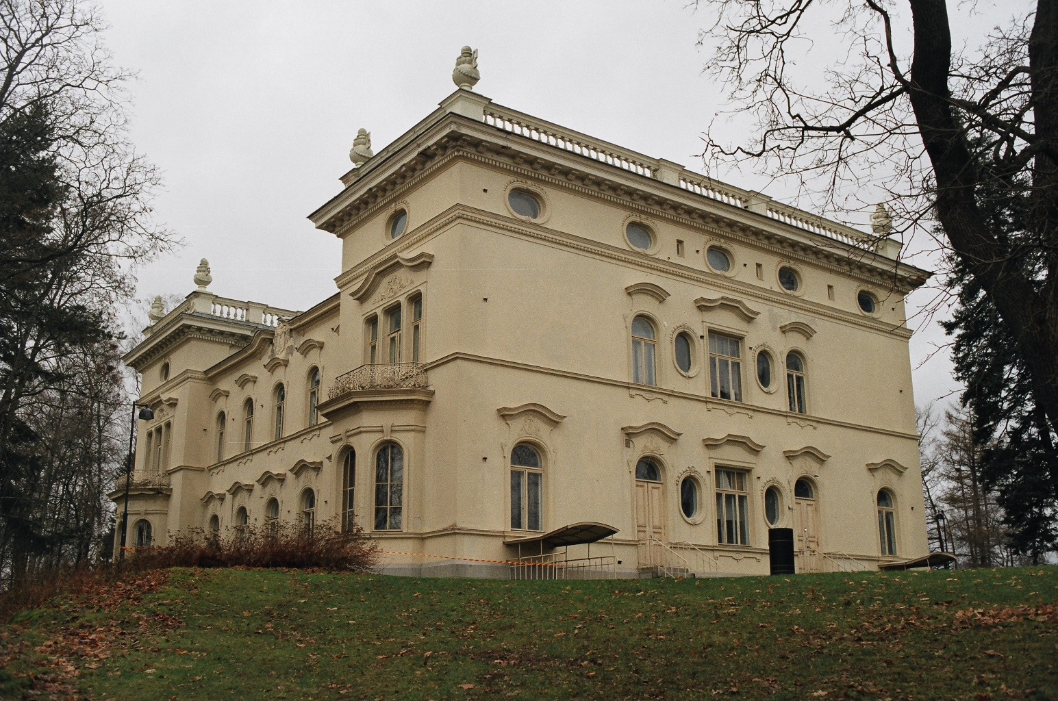 "Näsilinna", a former palace on Näsikallio, Tampere, Finland. Designed by architect Karl August Wrede, the building was originally completed in 1898 as "Milavida" for Peter von Nottbeck, one of the sons of the industrialist Wilhelm von Nottbeck. Since 1908, it has housed the Häme Museum.